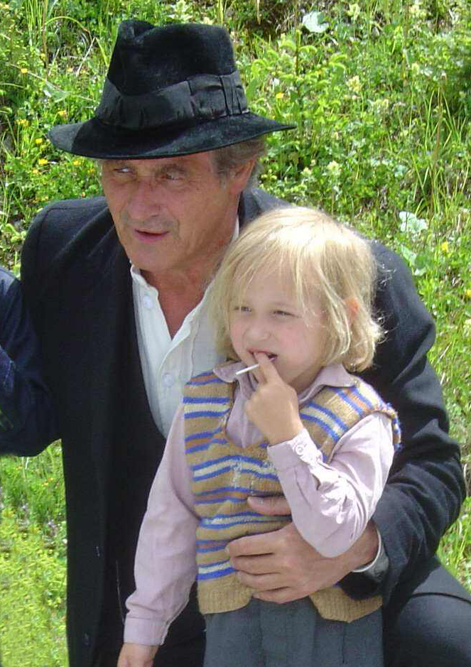 Tamino Wecker and Konstantin Wecker Film Apollonia